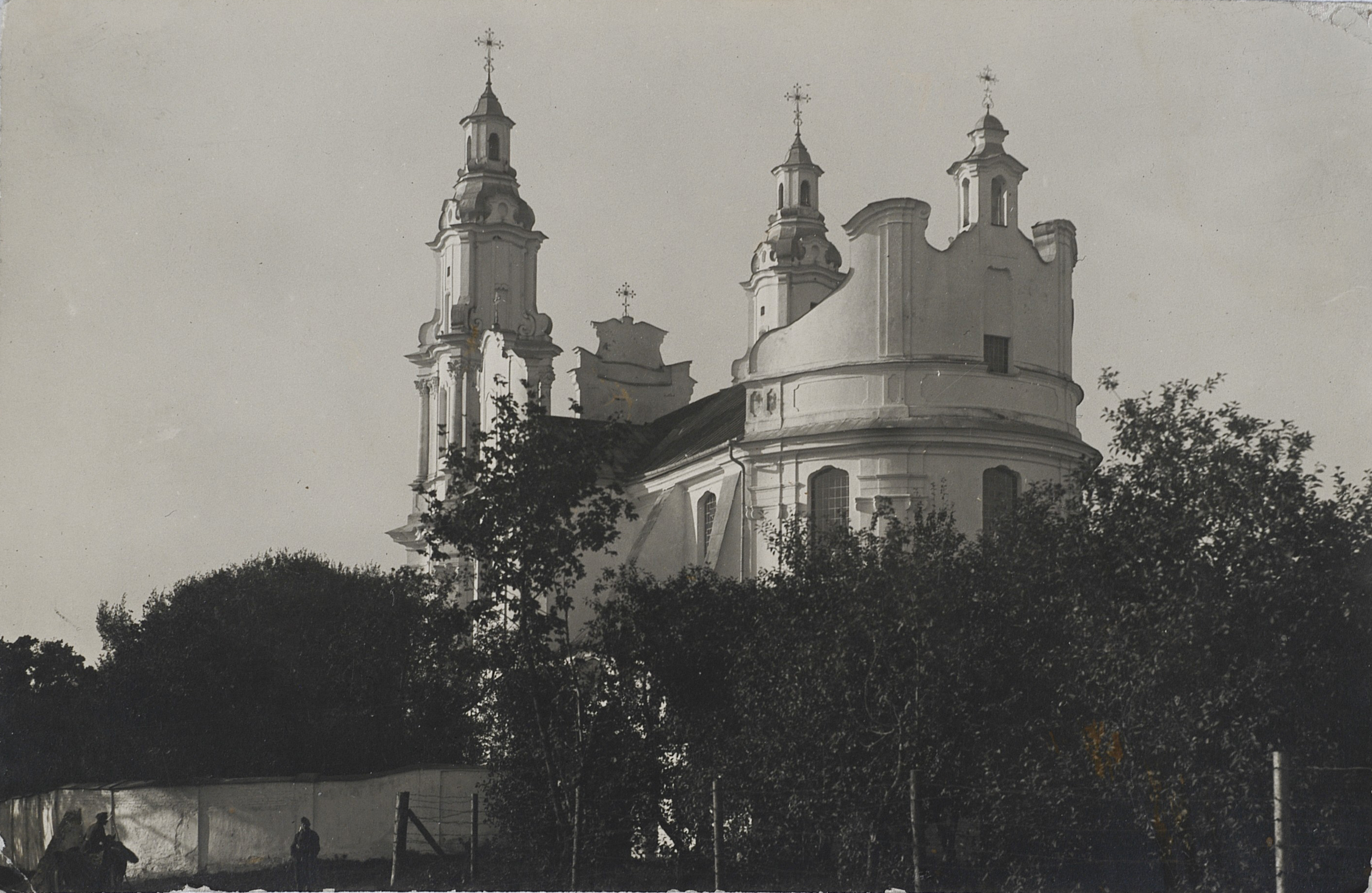 Non existent Uniat Church in Hłybokaje